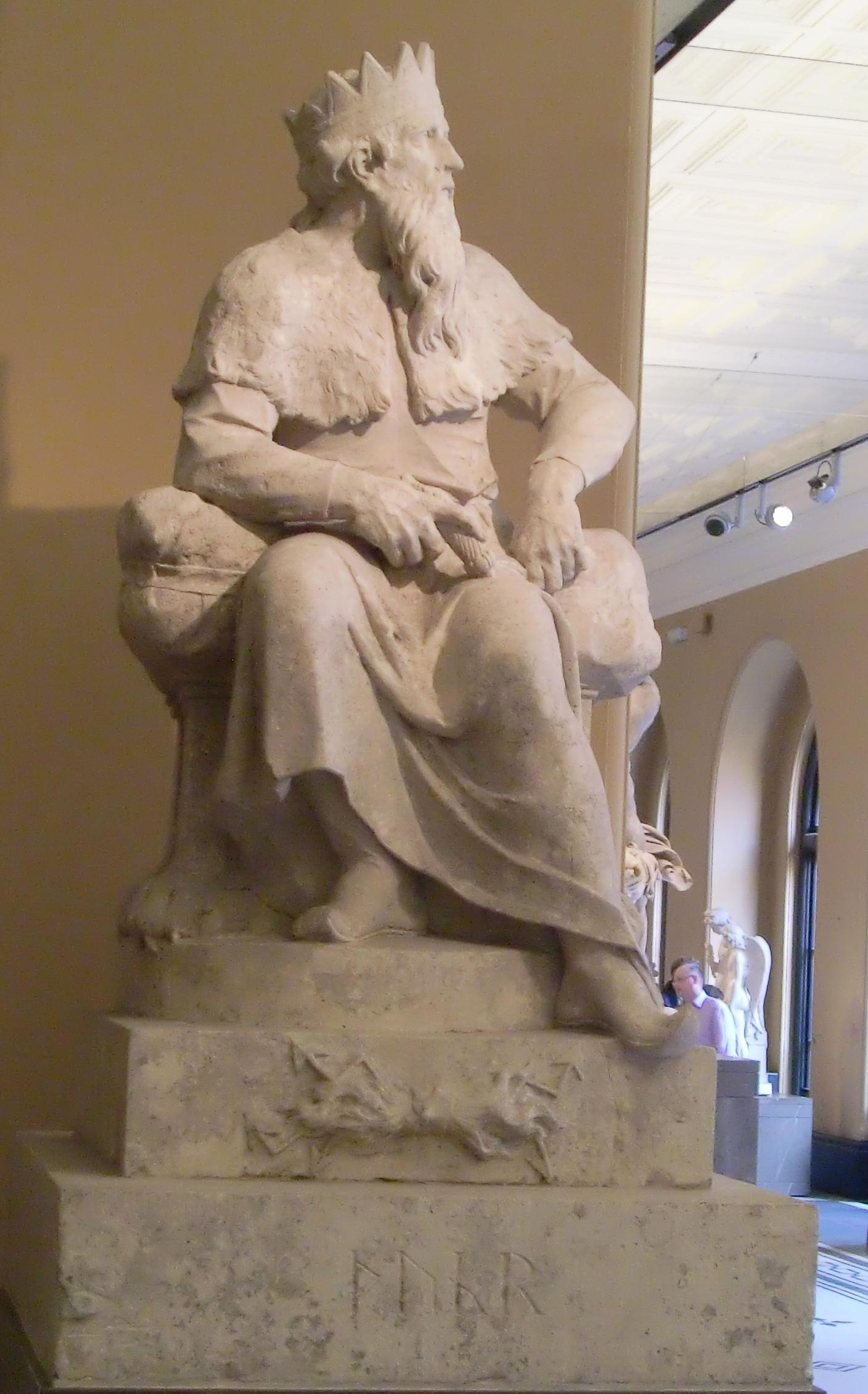 with thanks to the V&A for allowing photography